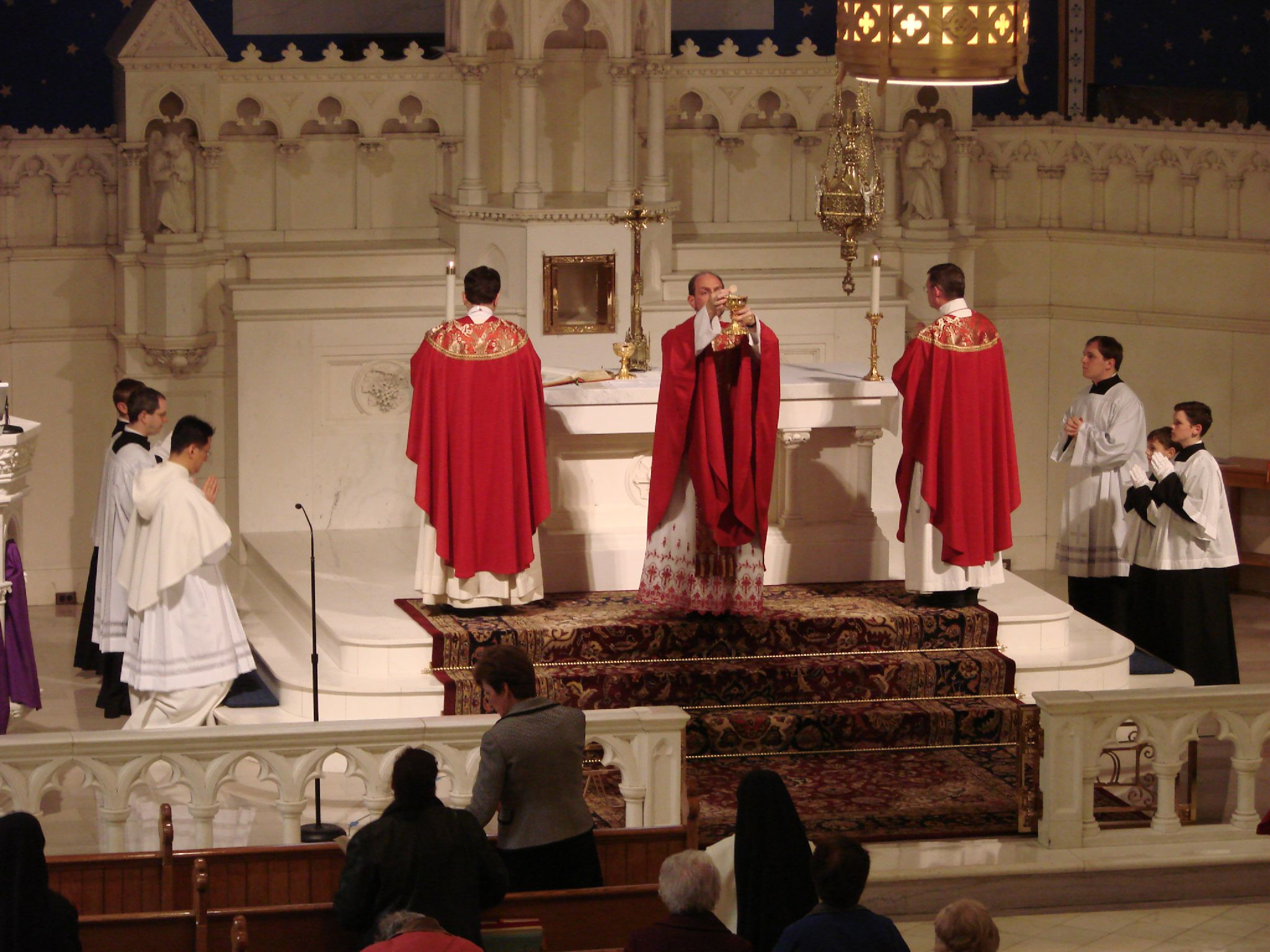 Good Friday Holy Communion, Our Lady of Lourdes, Philadelphia